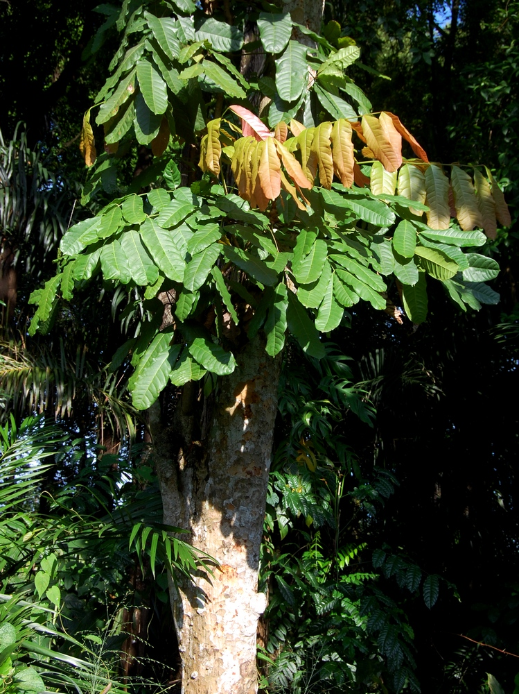 Schleichera oleosa, habits. Bogor, West Java.